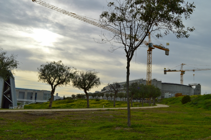 University of Cyprus Library Jean Nouvel Nicosia Republic of Cyprus January 2015